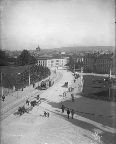 Drammenbanen and the Skøyen Line in Oslo, Norway